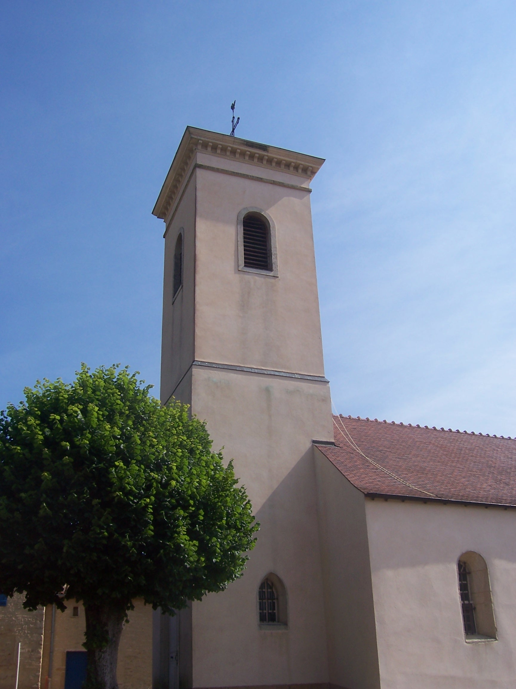 Eglise de Mancey